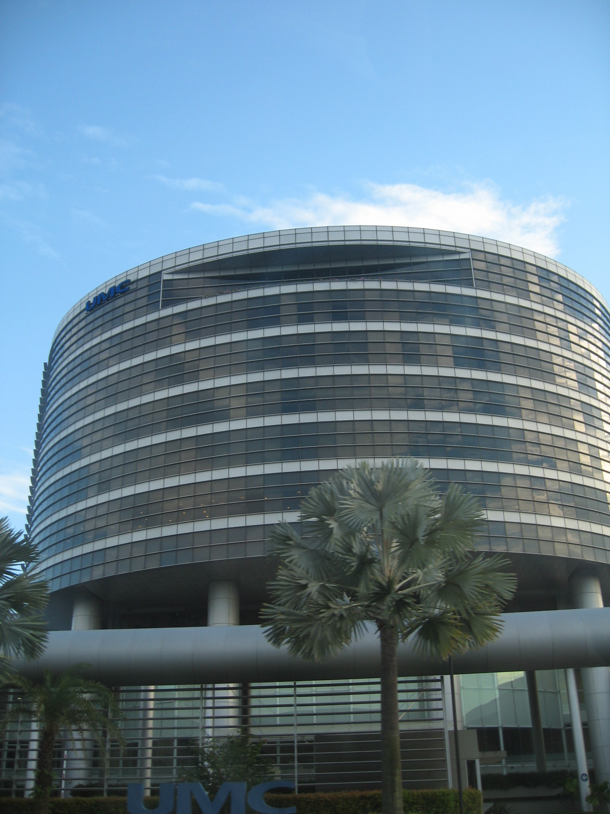 UMC Singapore HQ.